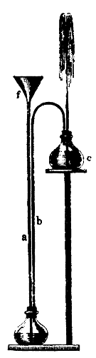 Hero's spring